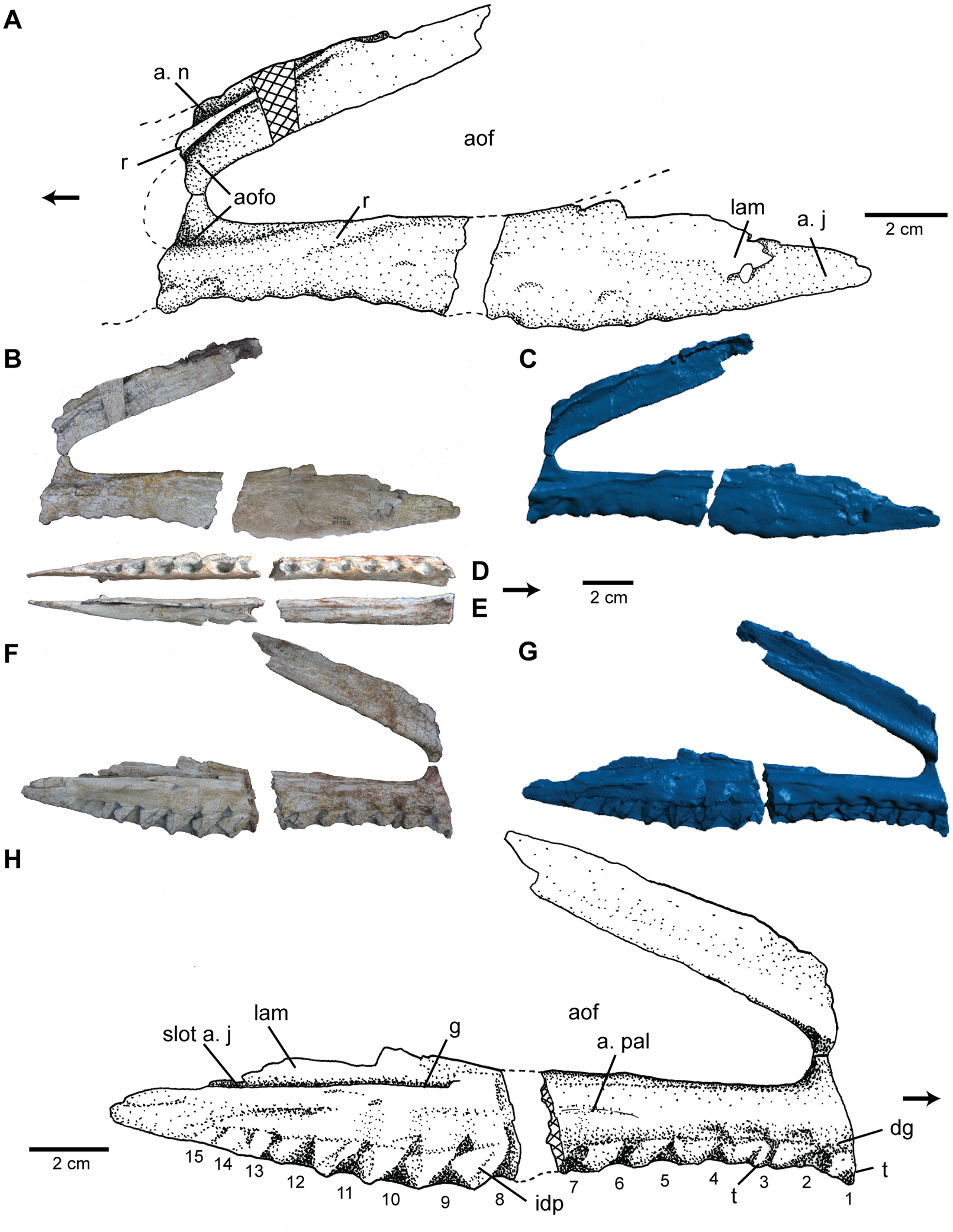 Fig 4. Maxilla of Carnufex carolinensis. NCSM 21558 (holotype), left maxilla in (A), (B), (C), lateral, (D), ventral, (E), dorsal (posterior process), and (F), (G), (H), medial views. (A), (H), stipple drawing, (B), (D), (E), (F), photograph, and (C), (G), 3D surface scan rendering. Abbreviations: a., articulation with; aof, antorbital fenestra; aofo, antorbital fossa; dg, dental groove; g, groove; idp, interdental plates; j, jugal; lam, lamina; n, nasal; pal, palatine; r, ridge; t, tooth. Alveoli numbered from anterior to posterior. Arrow denotes anterior direction.